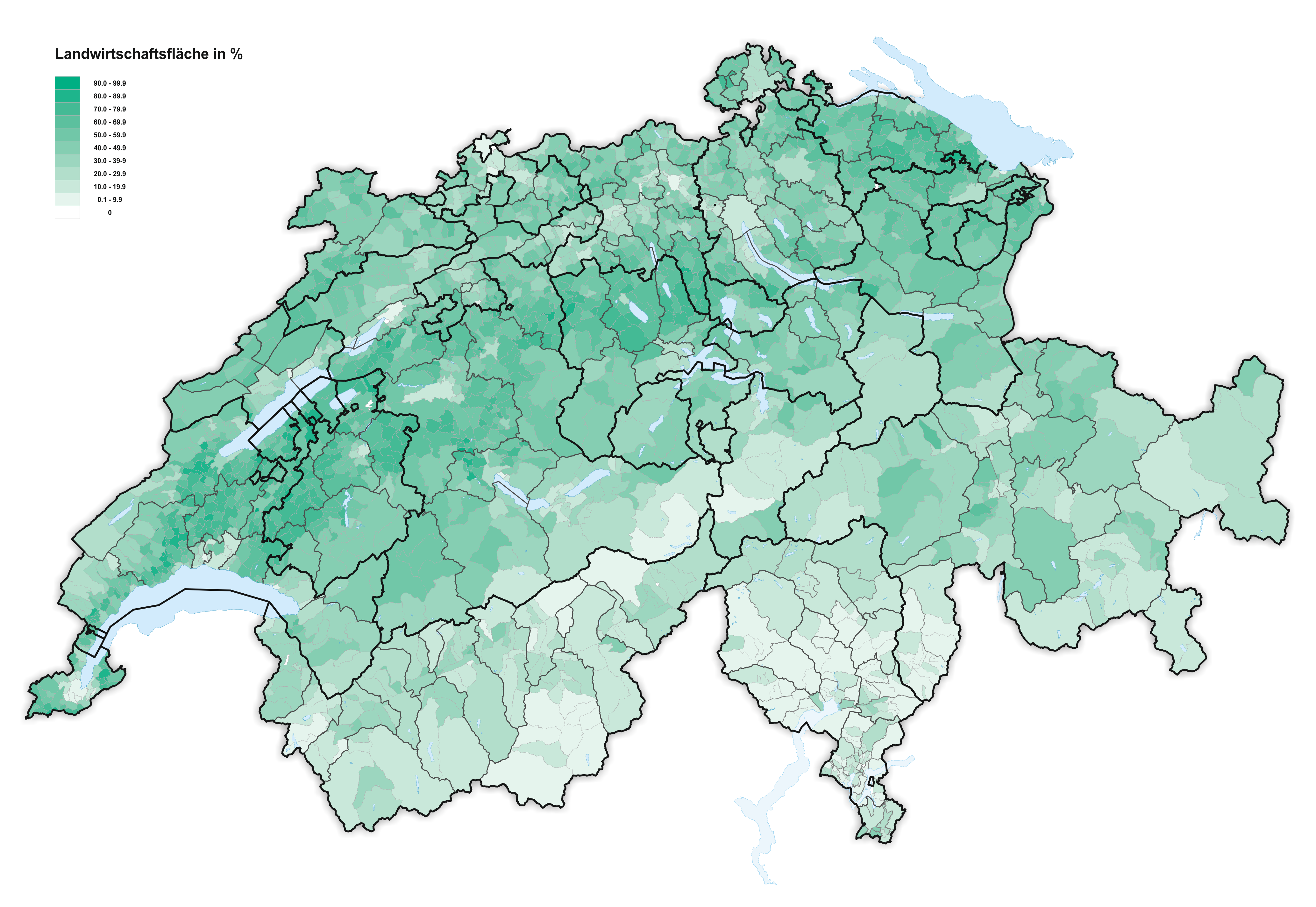 Agricultural lands in Switzerland